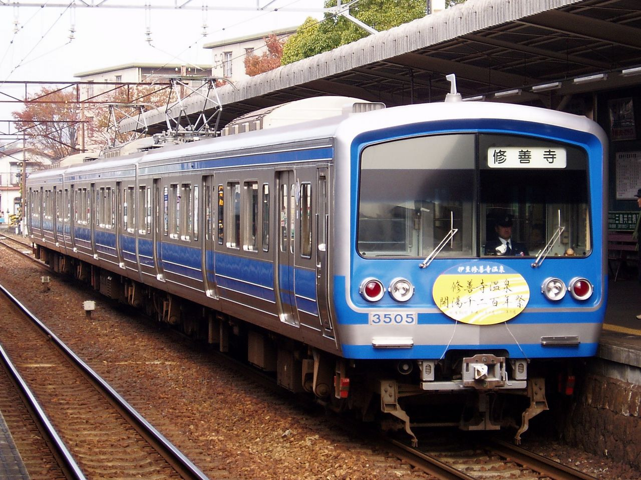 Isuhakone Railway at Daiba Sta. EMU Type 3000 2007.11.26 Photo by Cassiopeia_sweet.